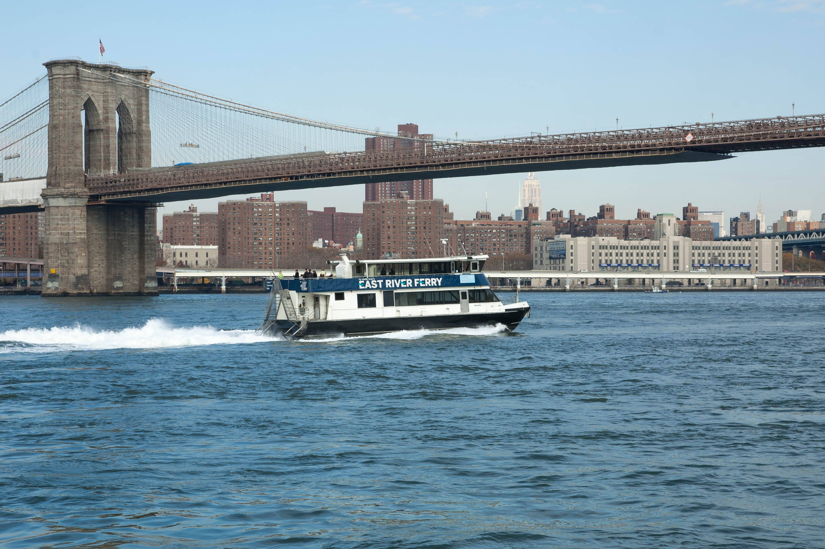 East River Ferry, operated by NY Waterway, approaching the Brooklyn Bridge.